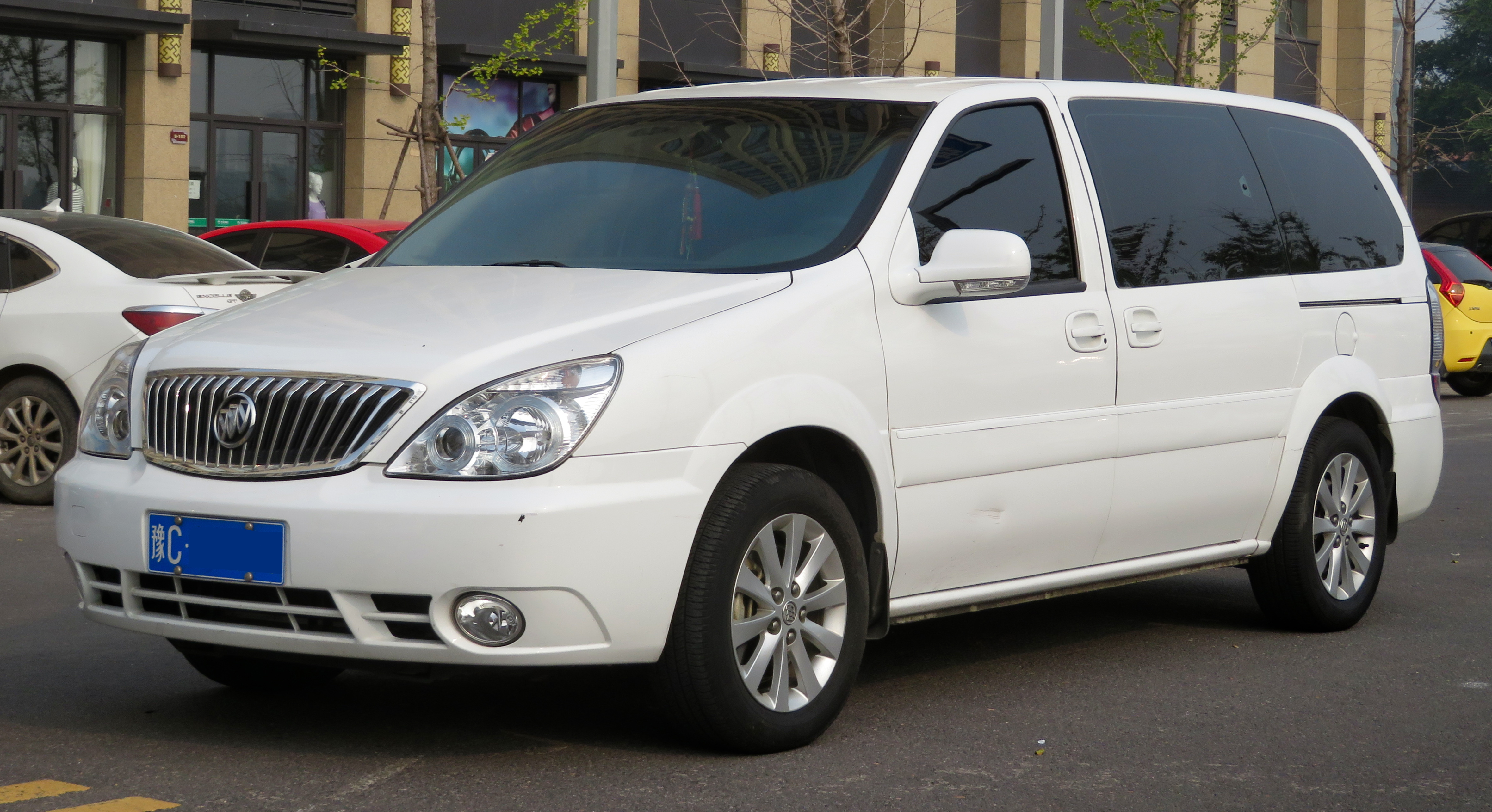 A 2010 Shanghai-GM Buick GL8 photographed in Xigong District, Luoyang, Henan province, China